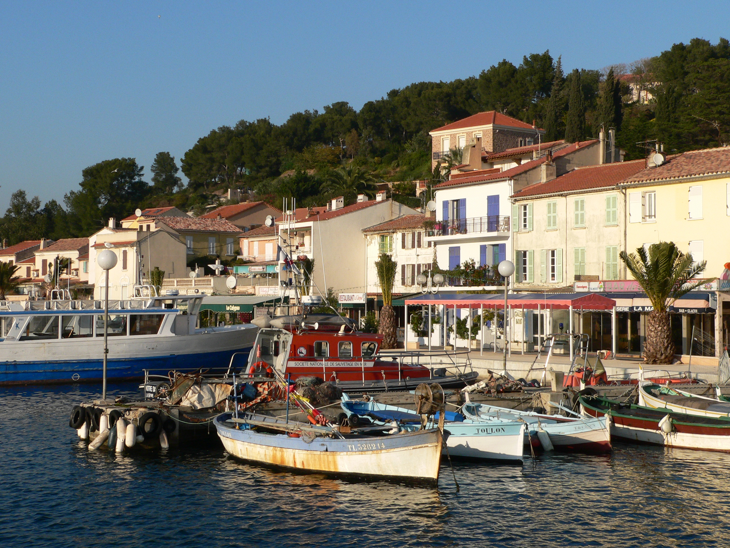 Saint-Mandrier-sur-Mer (across from Toulon, France): view of the harbor with the SNCM rescue boat, fishermen's boats